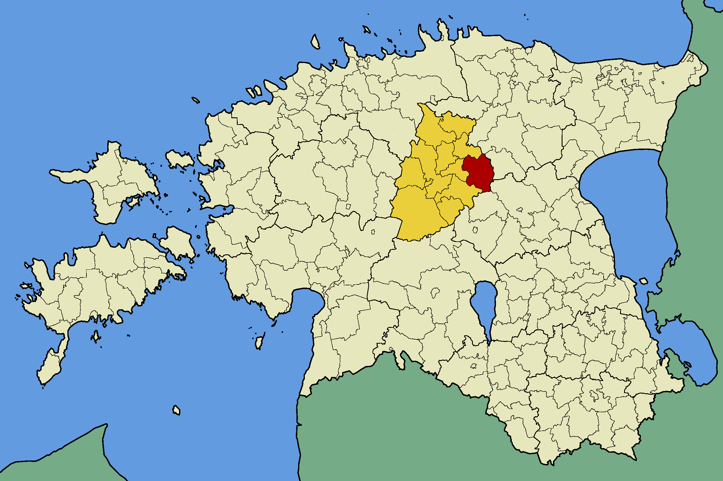 Map of Estonia with borders of municipalities (parishes). Järva county and Koeru municipality emphasized.